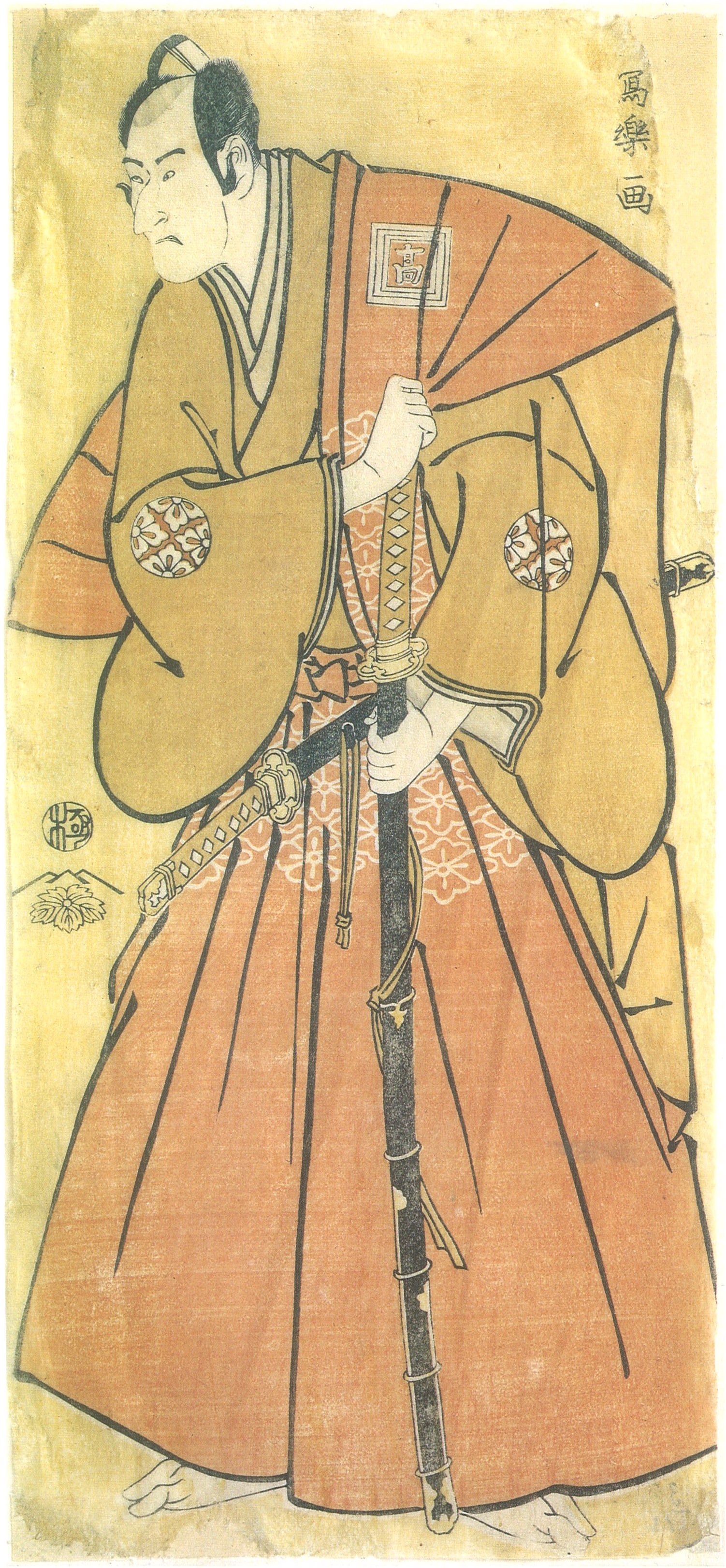 Ukiyo-e print